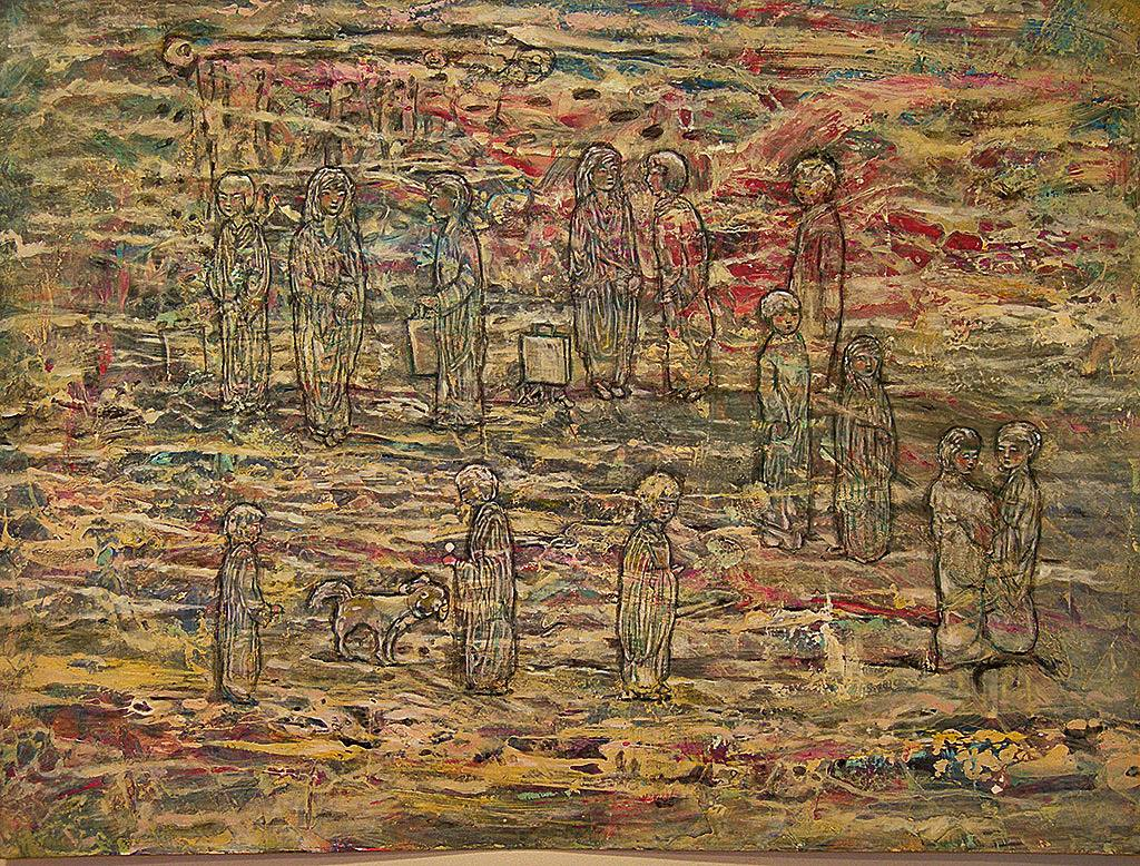 Scholar Shopping Bag Paradise - Painting. 2014. Acrylic. Relates to our addiction to shopping amidst the problems of global warming. About recycling and consumerism, throwing out trash.